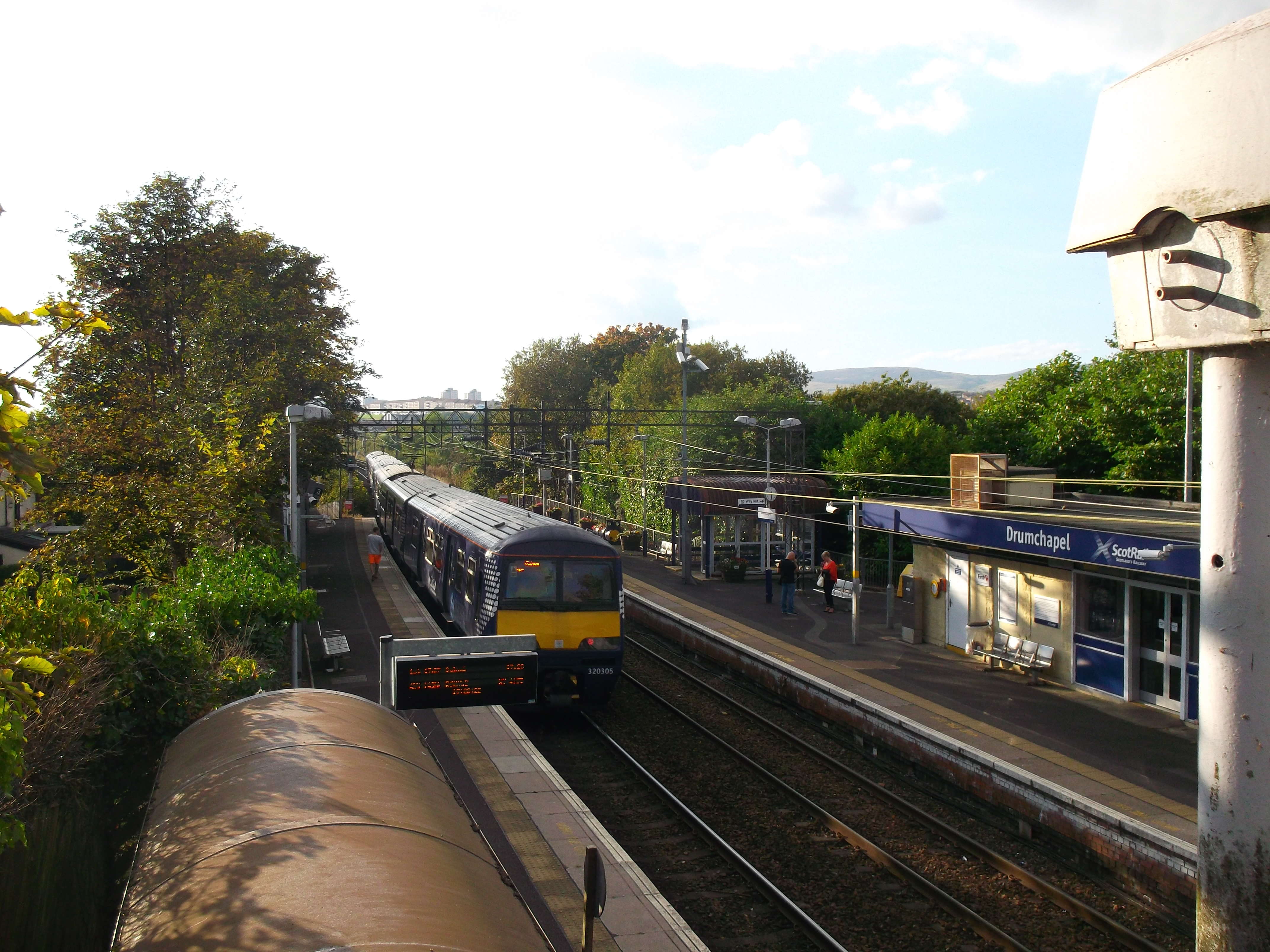 A train leaving Dumchapel Railway Station, Glasgow. Photo taken from the footbridge between platforms.